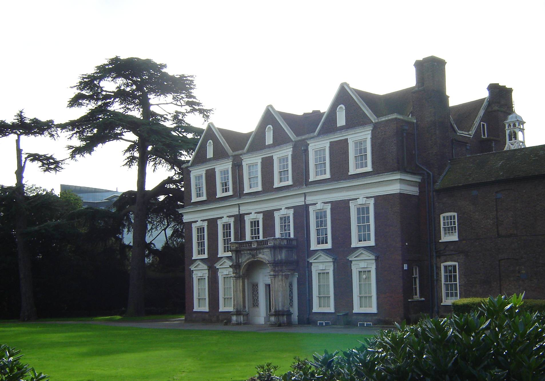 Front aspect of Boston Manor House, a Jacobean House in Hounslow